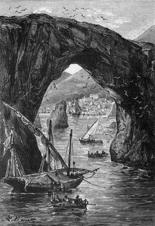 An illustration from Jules Verne's novel "The Archipelago on Fire" drawn by Léon Benett.